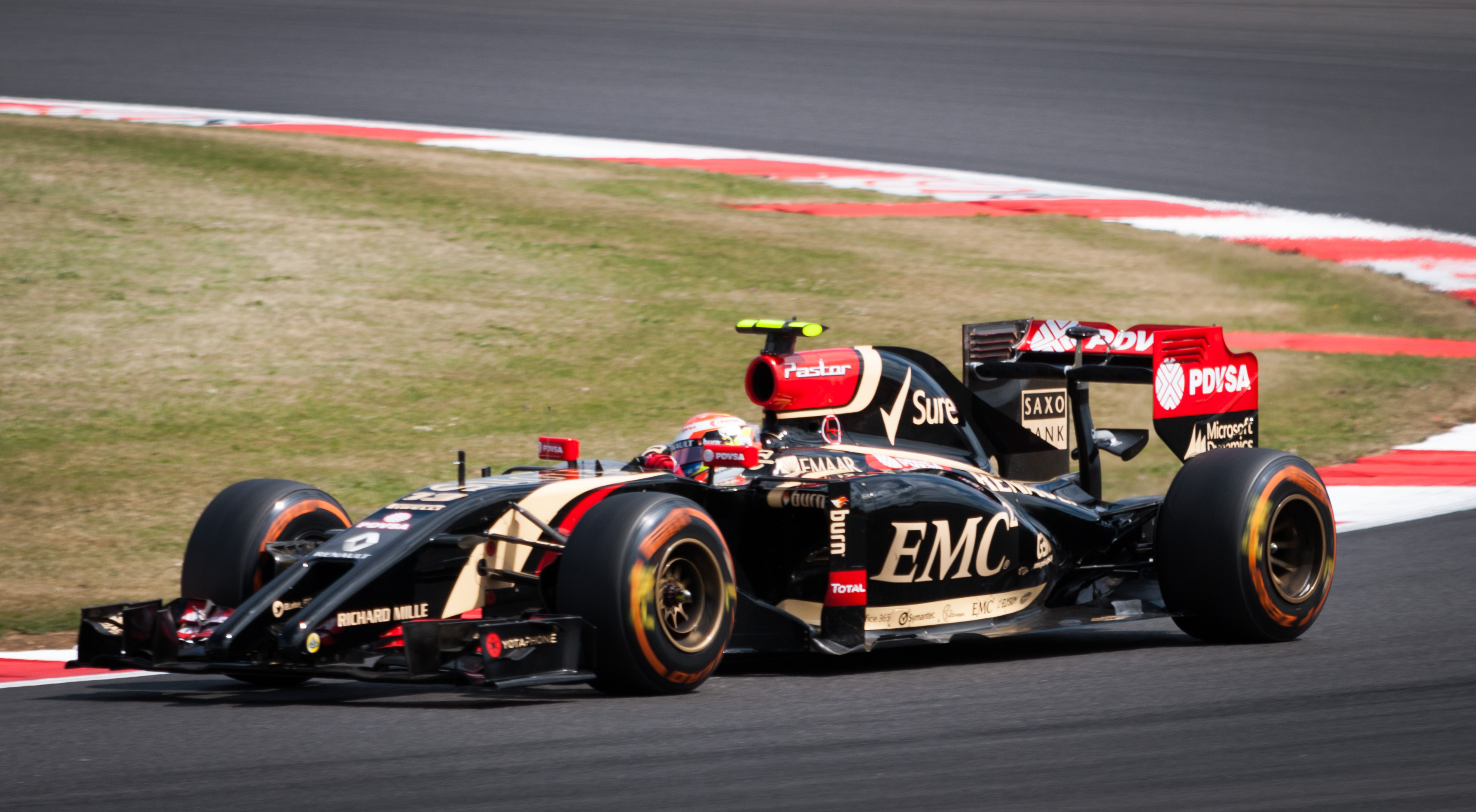 Pastor Maldonado on the Lotus E22 at 2014 British Grand Prix